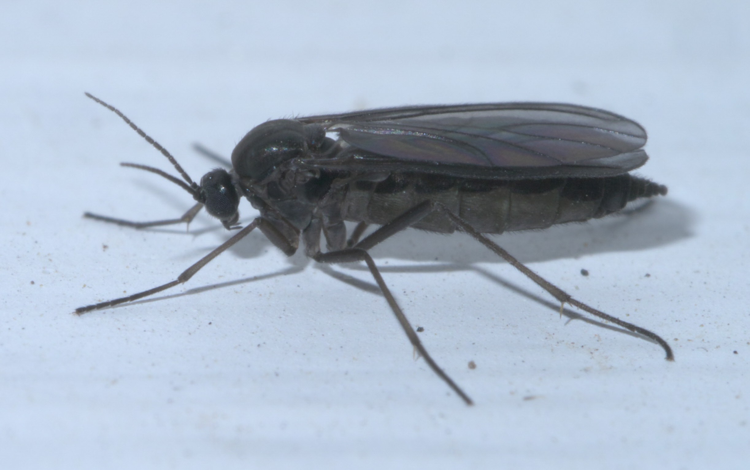 Sciaridae, dark-winged fungus gnats, Size: 5.7 mm